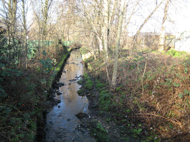 Pyl Brook in North Cheam Pyl Brook is a tributary of Beverley Brook and is seen here with the Kimpton Industrial Park on the right.